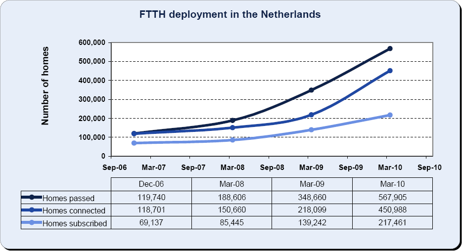 Roll out of FTTH Homes connected picks up pace, but number of actual subscribers trails behind